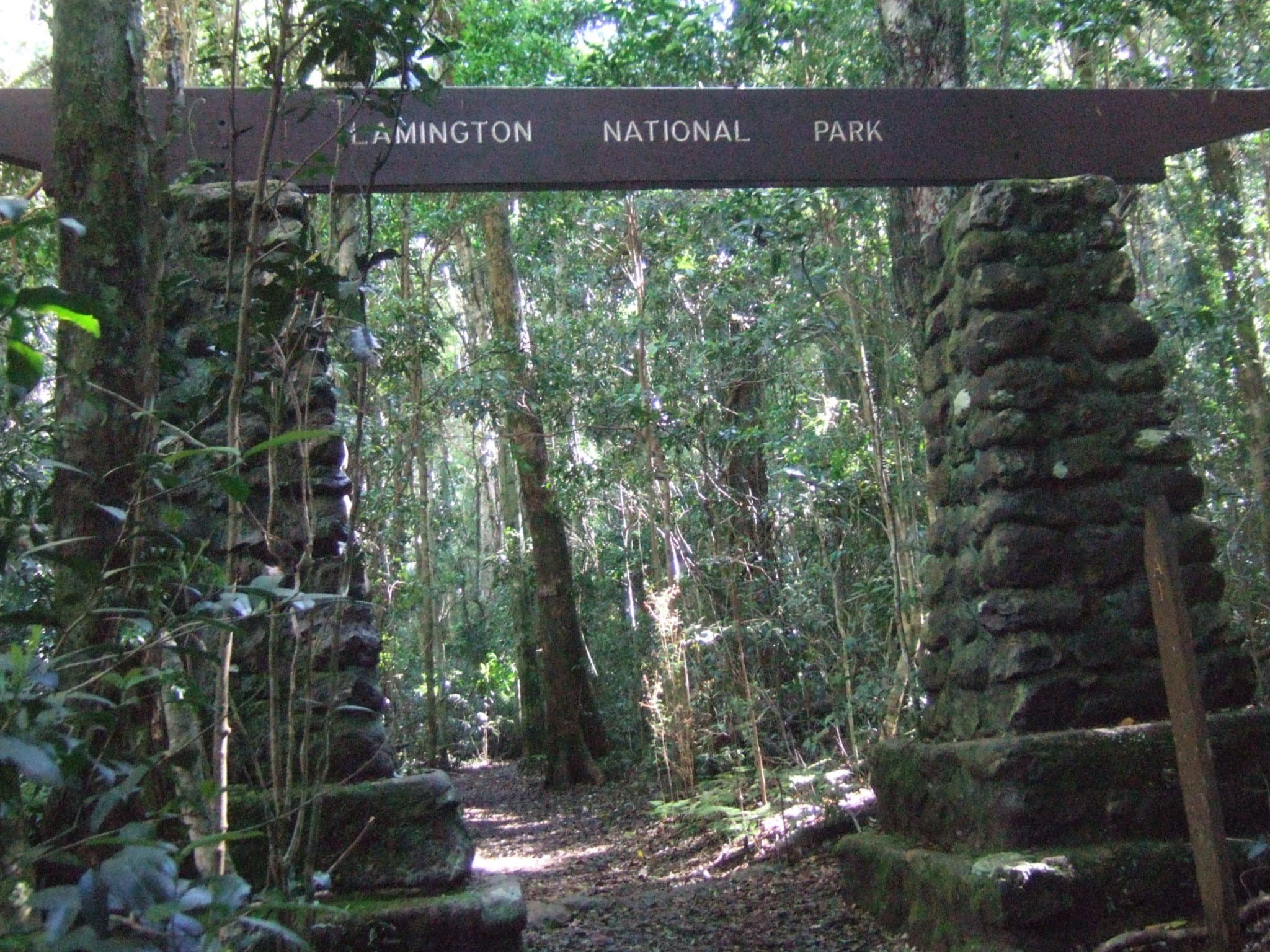 Scenery on the Ship's Stern Circuit walk in Lamington National Park.